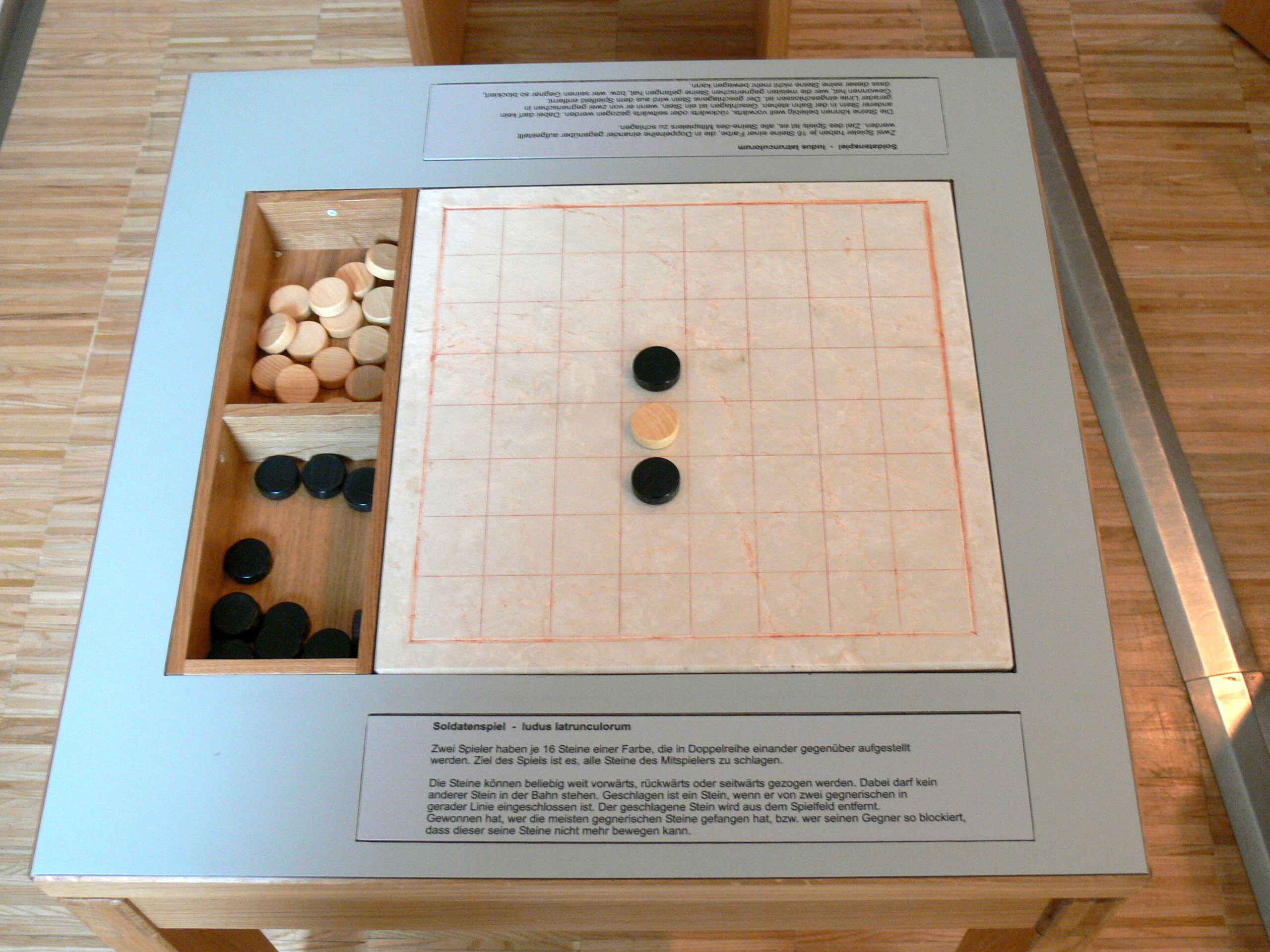 Museum Quintana - Roman department. Ancient Roman soldier game.